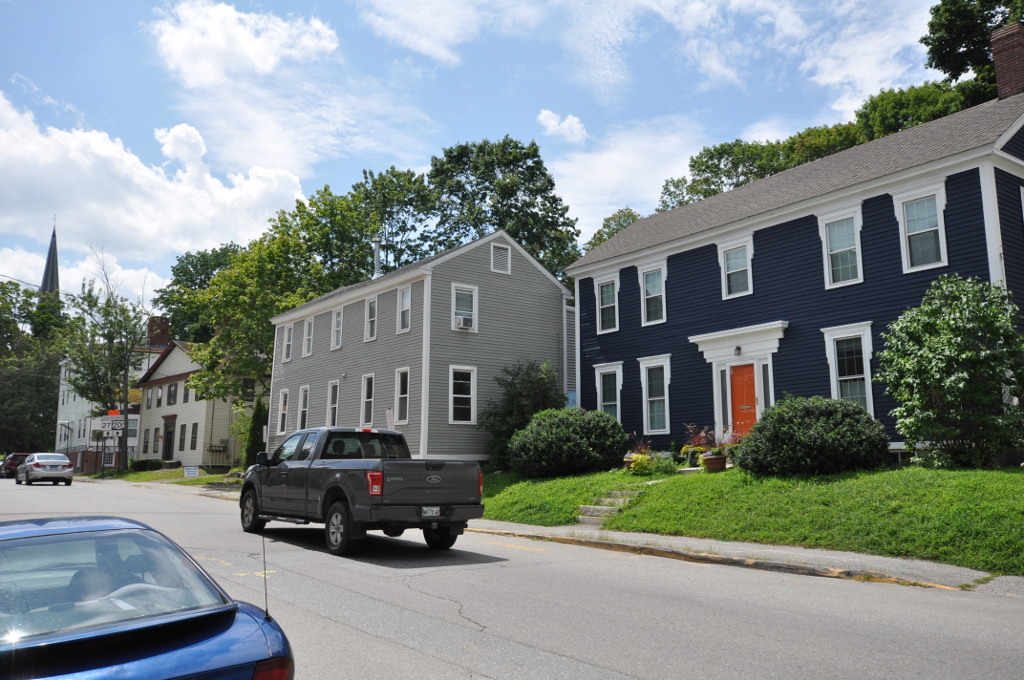 Hallowell Historic District, Hallowell, Maine. Second Street houses.